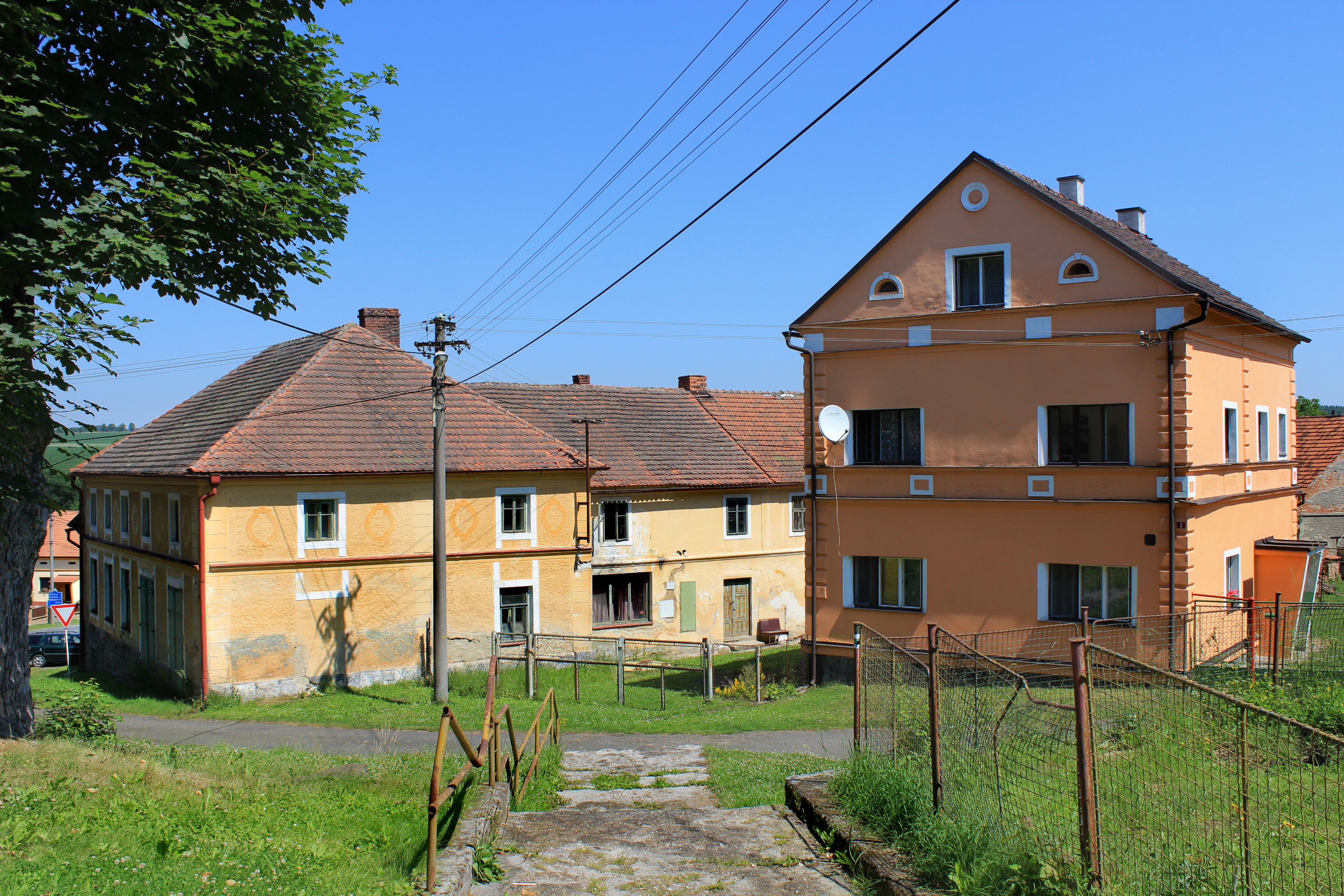 Houses by church in Bukovec, Czech Republic.